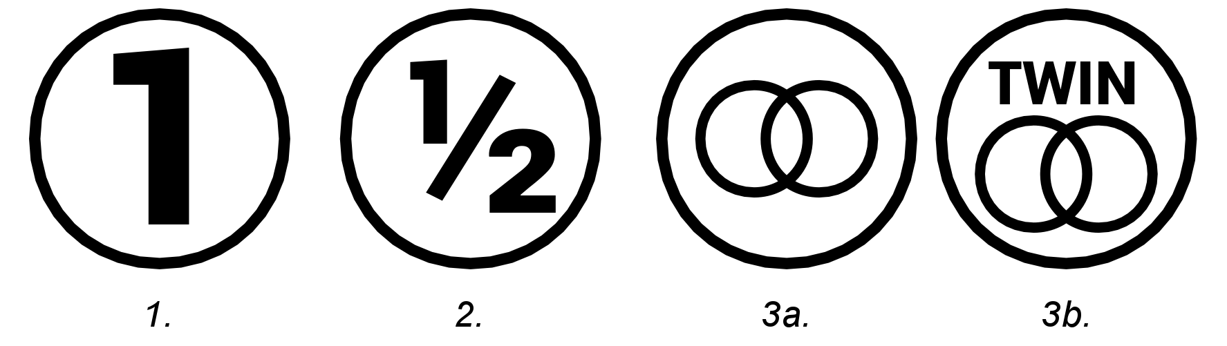 Classification of climbing ropes according to EN 892